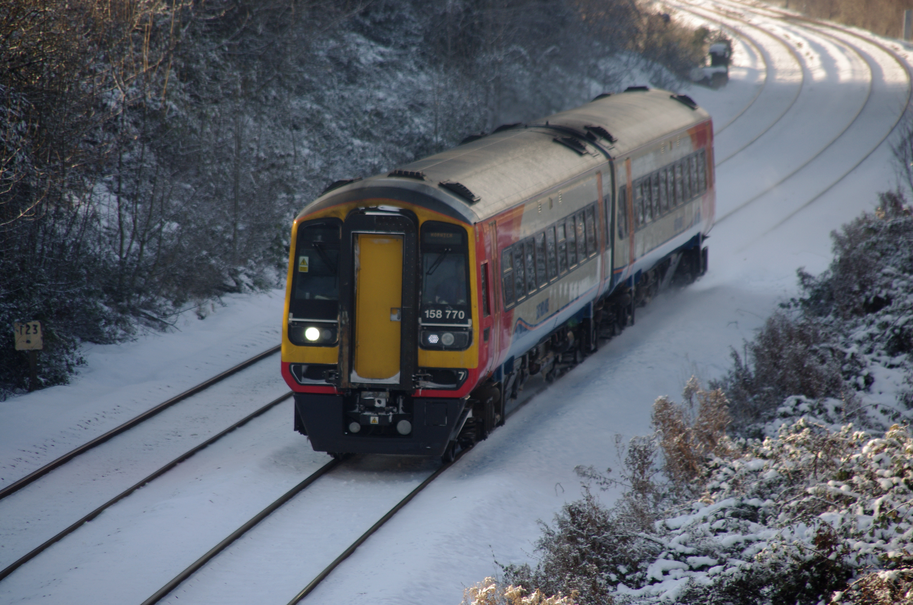 In snowy conditions, East Midlands Trains "Express Sprinter" DMU 158770 approaches Radcliffe railway station with a Liverpool-Norwich service.